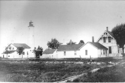 Sturgeon Point Light Station, Alcona County, Michigan, in approximately 1900-1910. On the right is the United States Life-Saving Service station at Sturgeon Point, which has since been demolished.